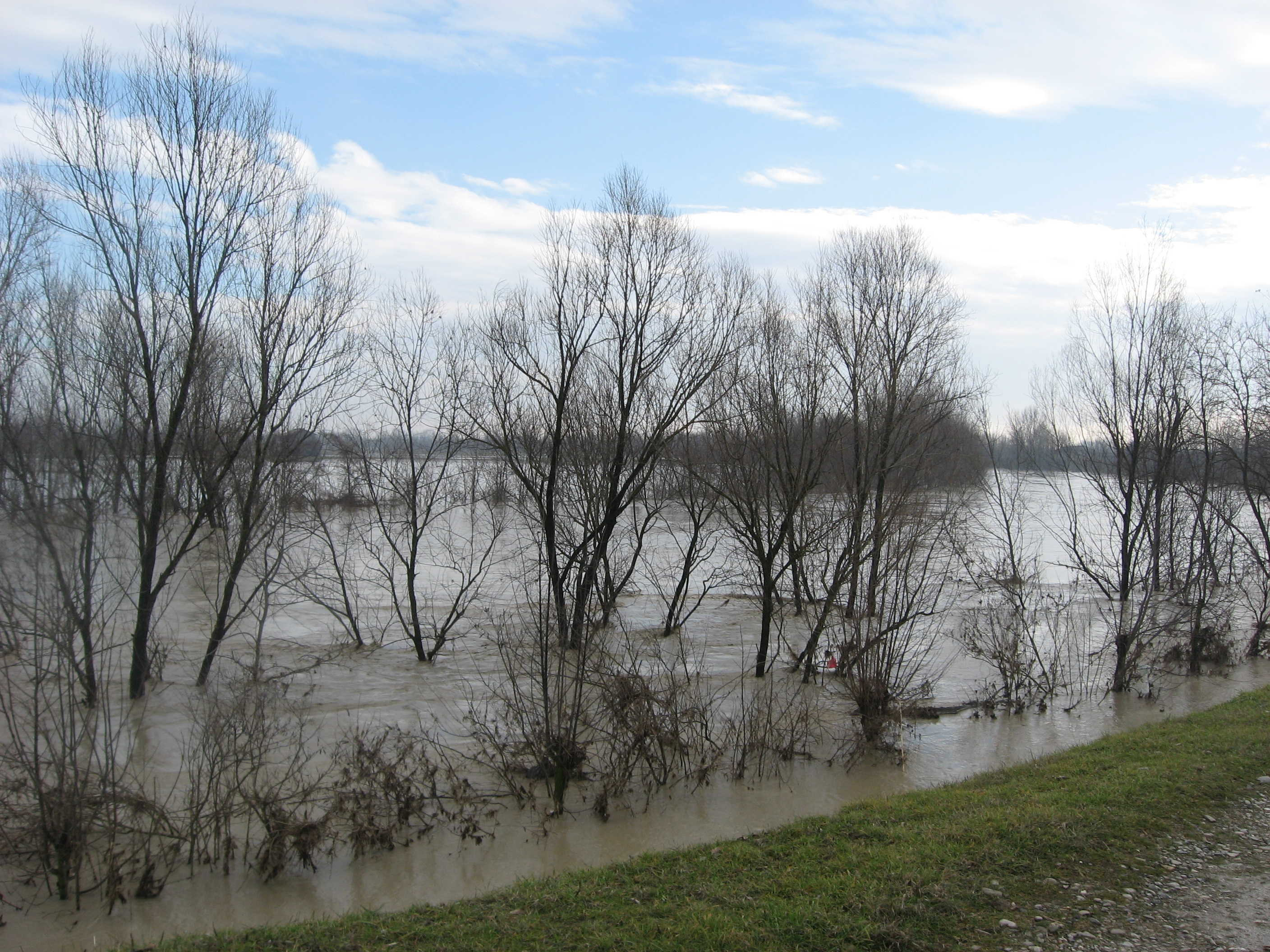 Taro river